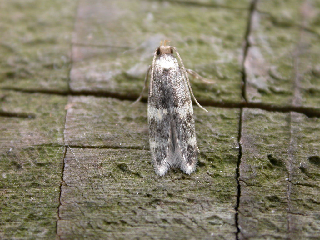 Oegoconia deauratella, to MV light, Hellerup, Denmark, 26 July 2005